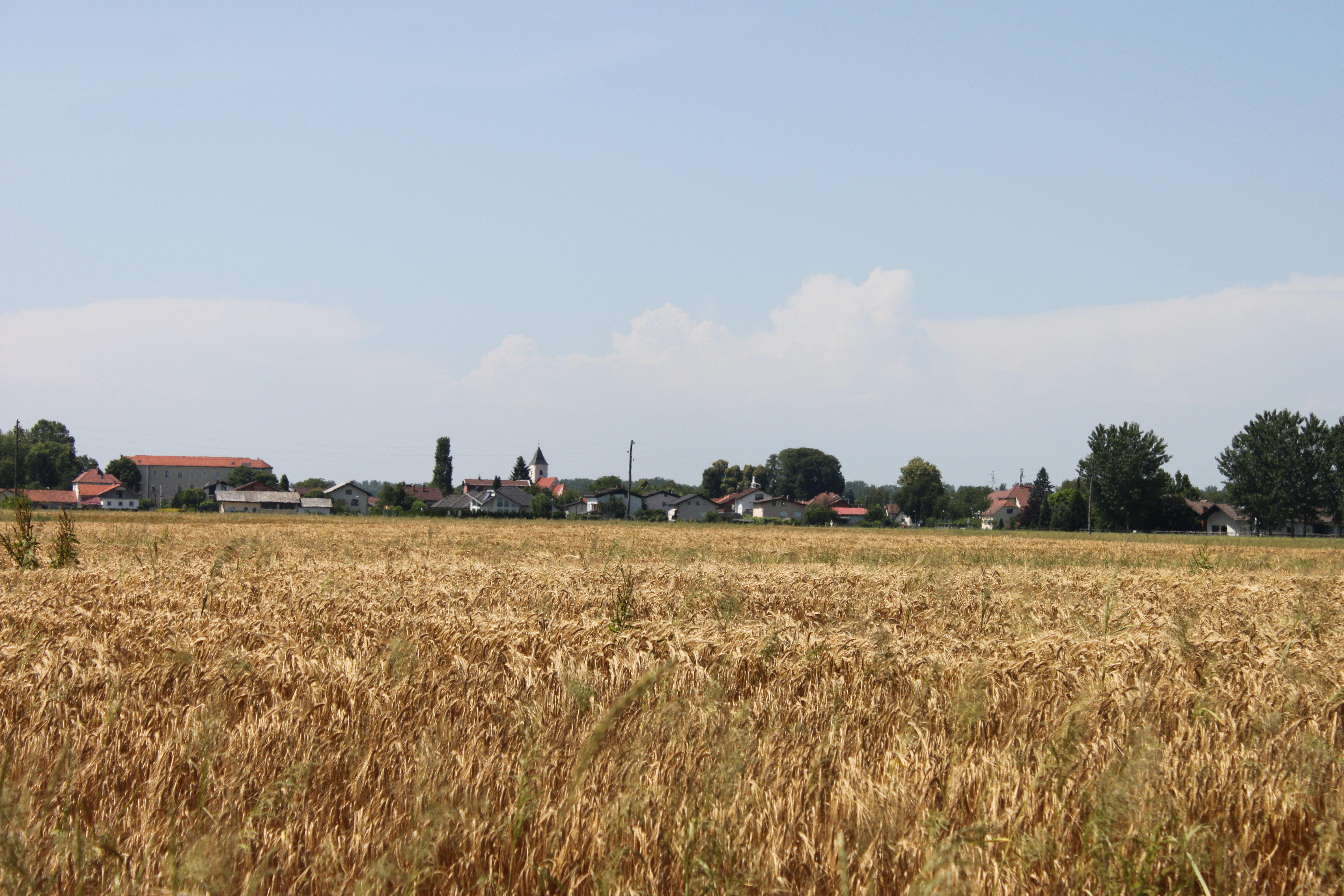 Verzej (Wernsee); Slowenia; in Lower Styria (Untersteiermark); view from the east